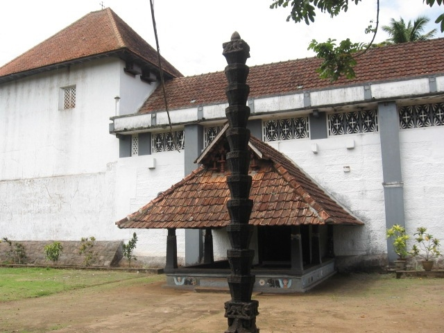 Front View Of Church